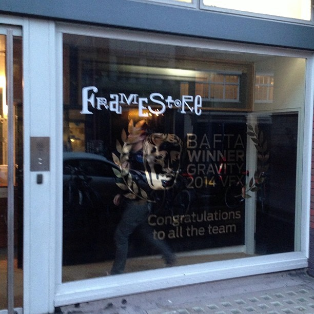 Framestore office front London 3 March 2014